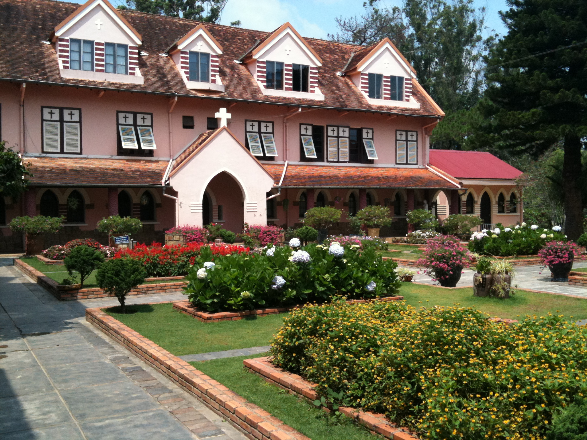 The courtyard and gardens within Domaine de Marie Convent, Da Lat, Vietnam.